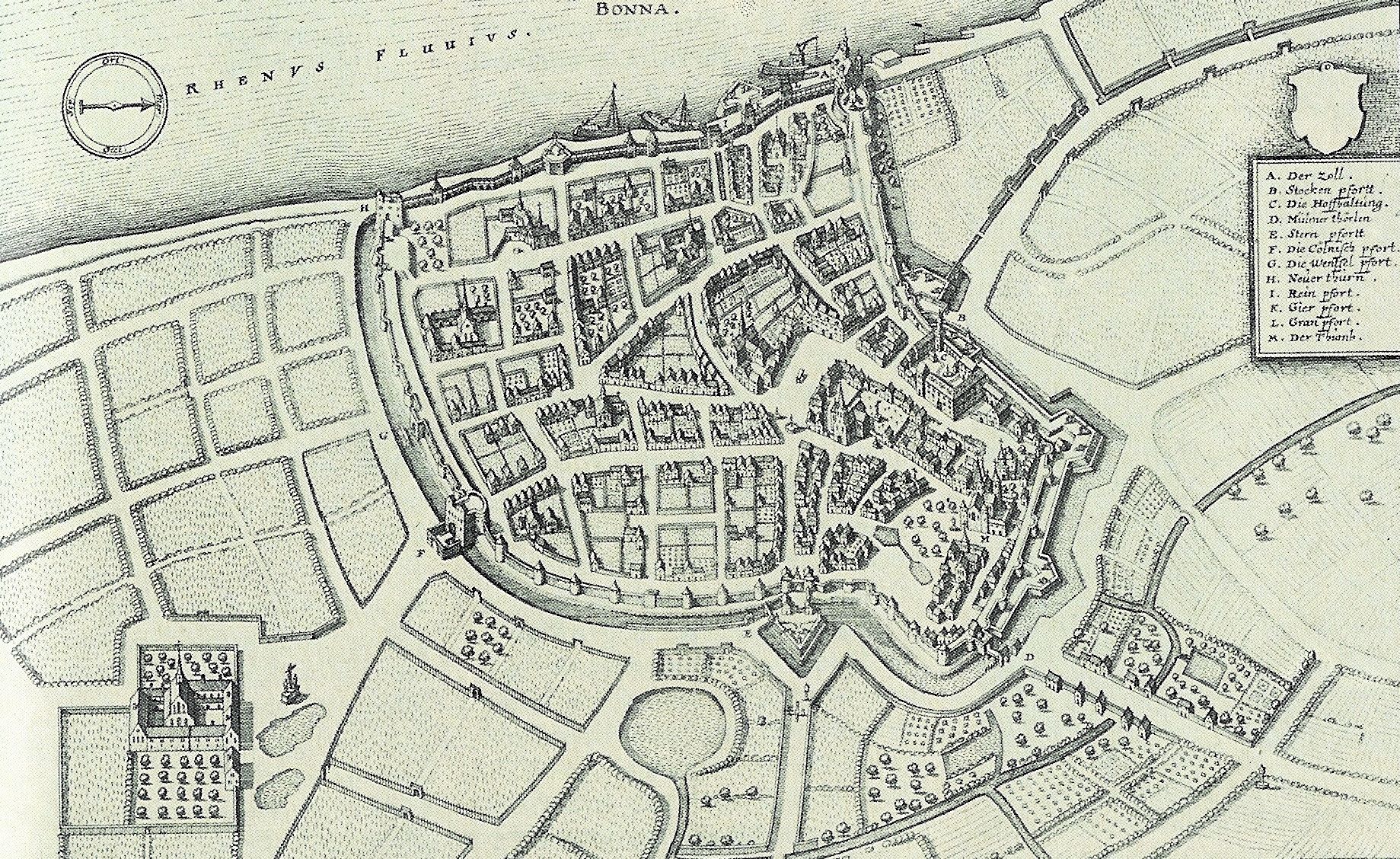 Bonn – copperplate engraving by Matthäus Merian in 1646